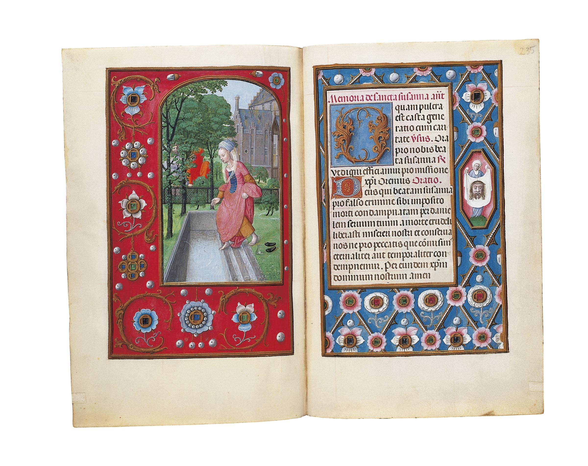 Info Christie's, LotFinder: entry 5766082 (sale 2819, lot 157) Rothschild Prayerbook